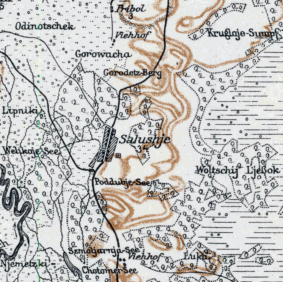 Zaluzhzhia on the map "Karte des Westlichen Russlands", T 35, 1917. According to Digital Repository of Scientific Institutes and Kujawsko-Pomorska Digital Library the map is in the public domain.